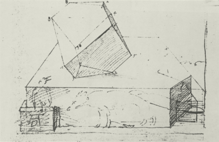 Preparatory sketch for the polyeder in Melencolia I by Albrecht Dürer. Pen and ink. Sachsische Landesbibliothek, Dresden.